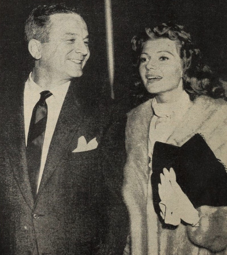 James Hill and Rita Hayworth, 1958